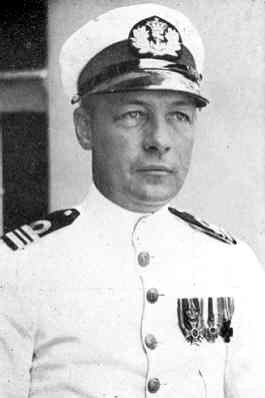 Portrait of Karel Doorman (1889-1942), commanding officier of HNLMS Prins van Oranje.